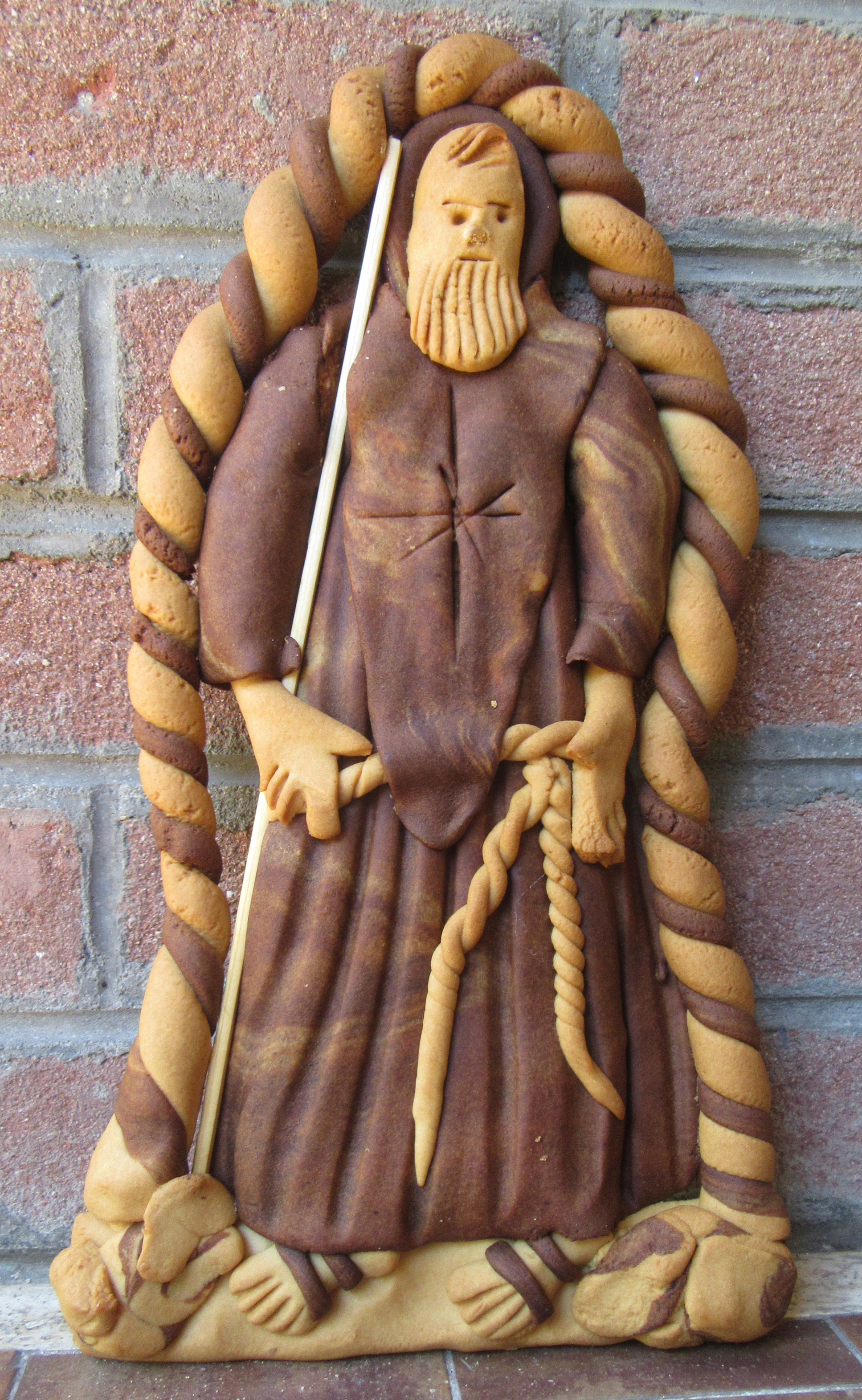 Image of saint Francis of Paola, cooken as nzouddha, a typical calabrian cake.